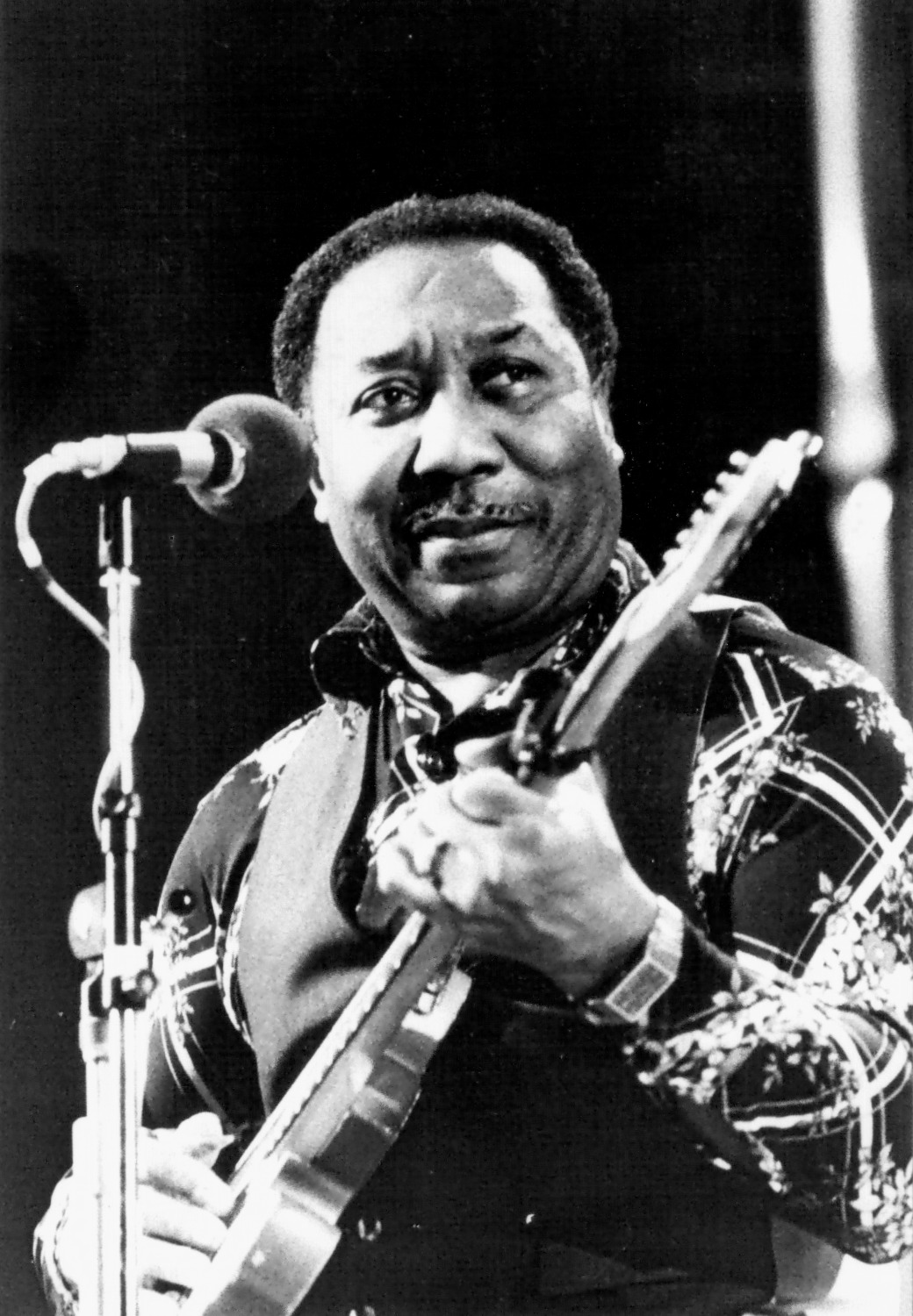 Muddy Waters in Paris, France